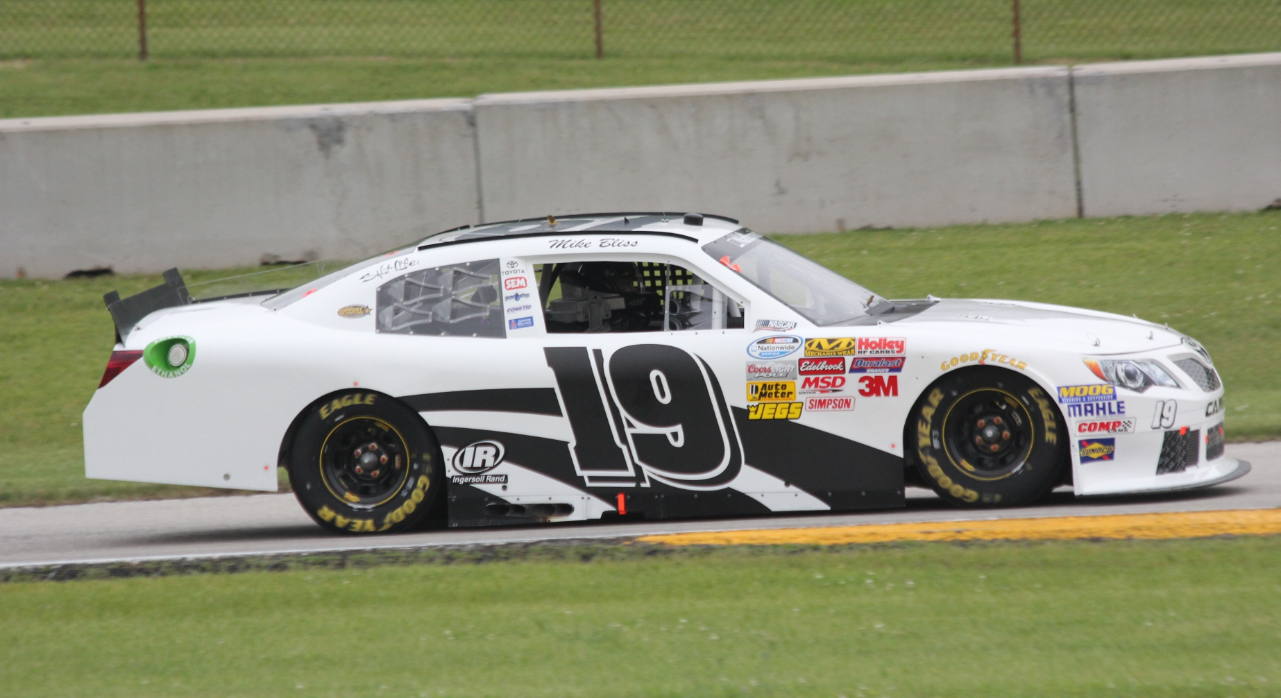 The passenger side of Mike Bliss Nationwide car during the 2014 Gardner Denver 200 at Road America. Taken racing in turn 13.